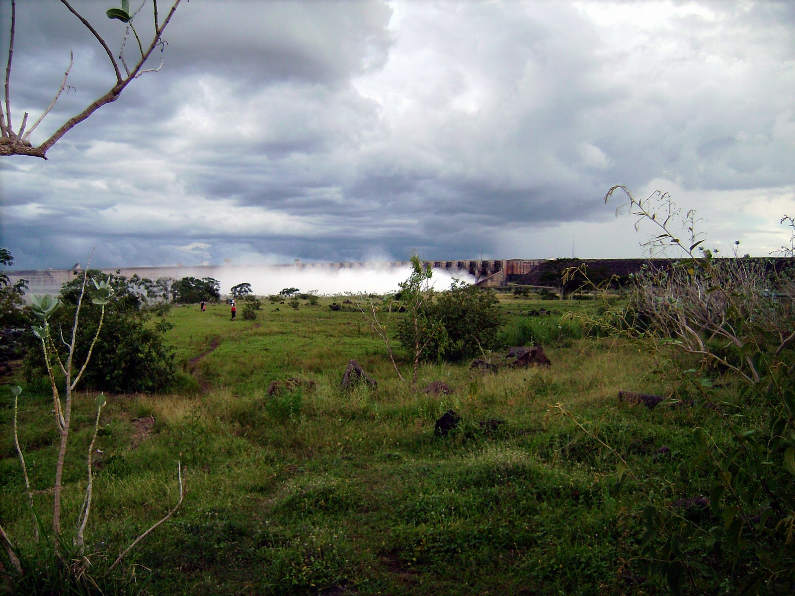 Ilha Solteira Dam, Brazil